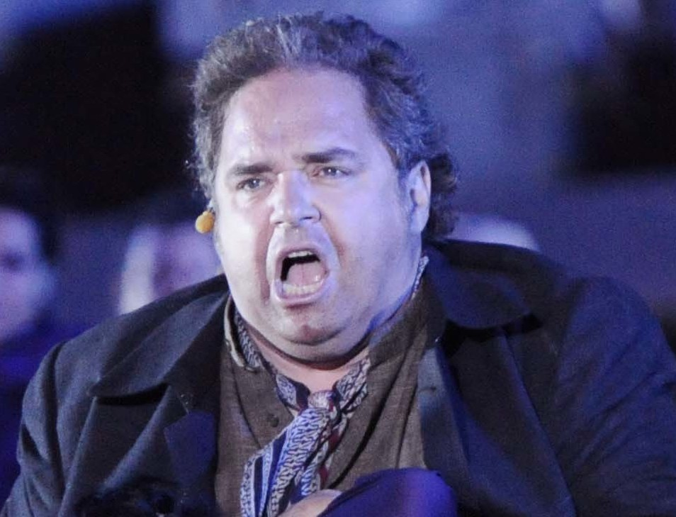 Photo by Yossi Zwecker